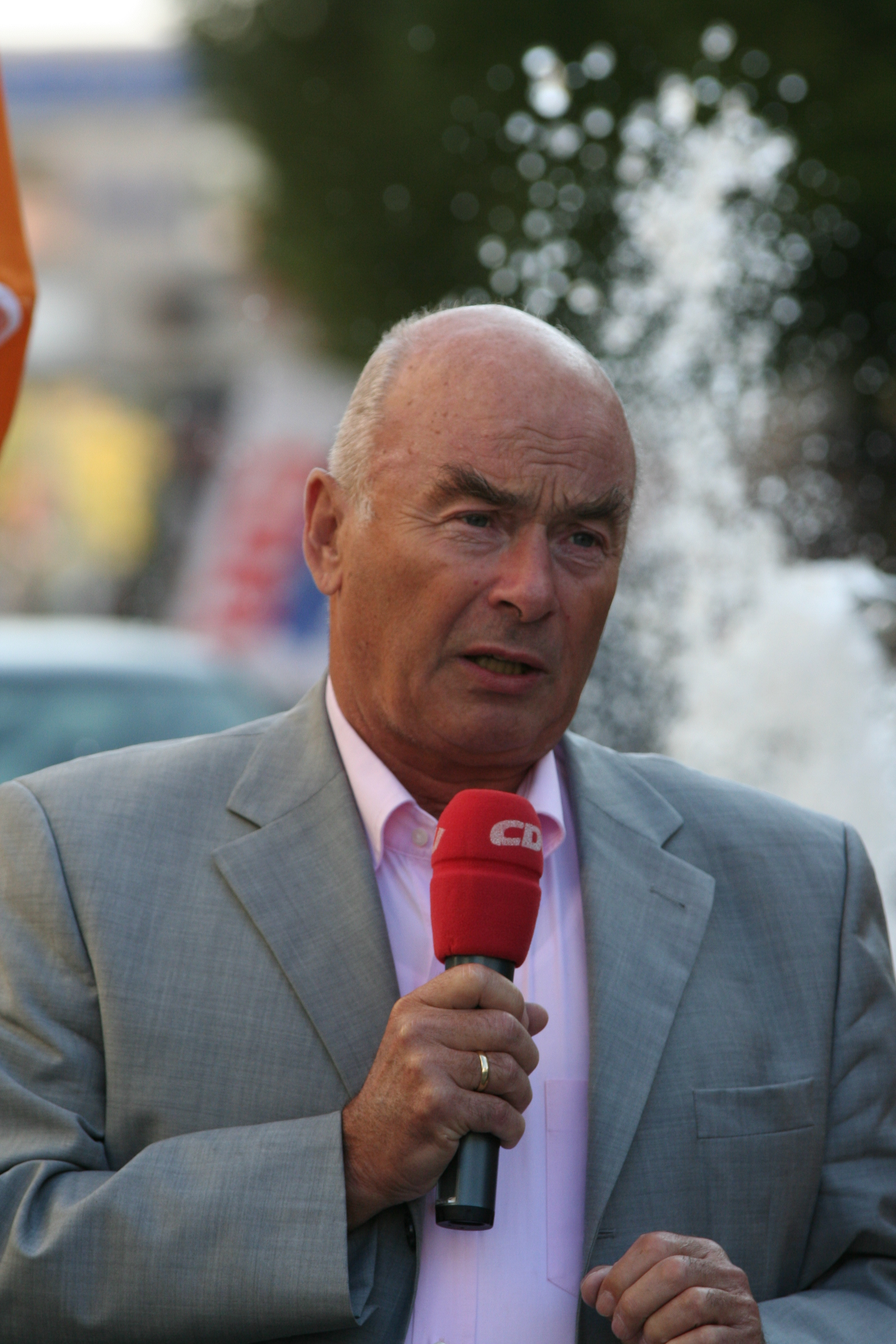 Jörg Schönbohm at a election campaign in Berlin-Reinickendorf